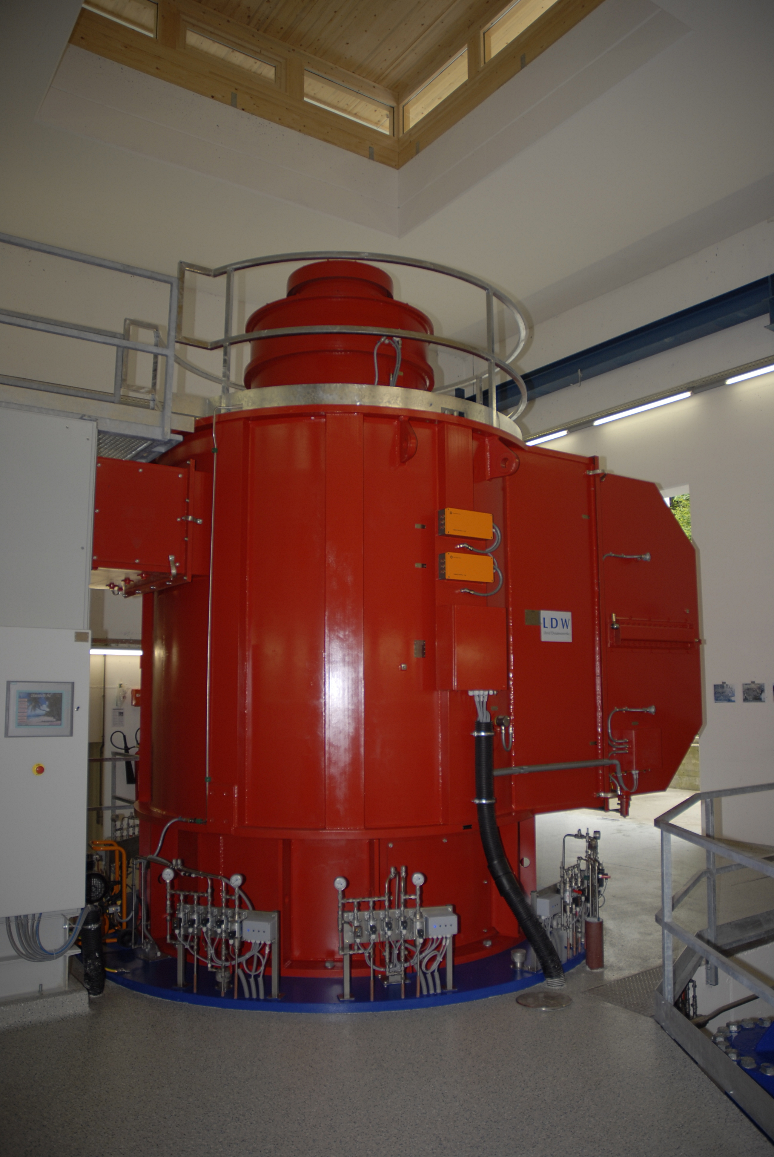 Hydroelectric generator (6.200 kW) in the Vomper Loch power plant, the newest of the generators there